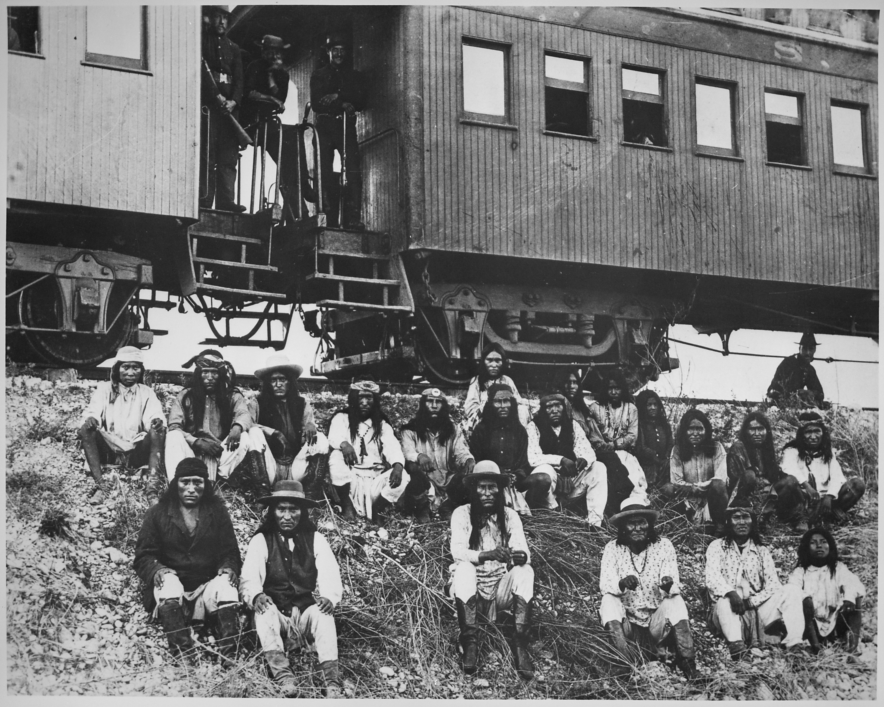 Scope and content: Chiricahua Apache prisoners, including Geronimo (first row, third from right), seated on an embankment outside their railroad car, Arizona